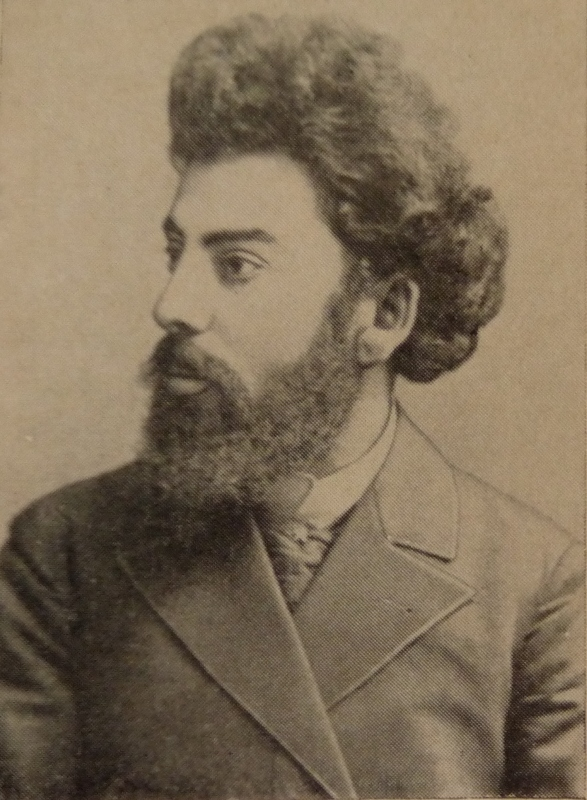 The photo of Shio Aragvispireli was a penname of Shio Dedabrishvili (1867–1926), a Georgian writer popular for his stories of protest against social inequality, the reality of oppressed peasants and underlings and decadent lords, and the struggle between individual happiness and social dogmas.